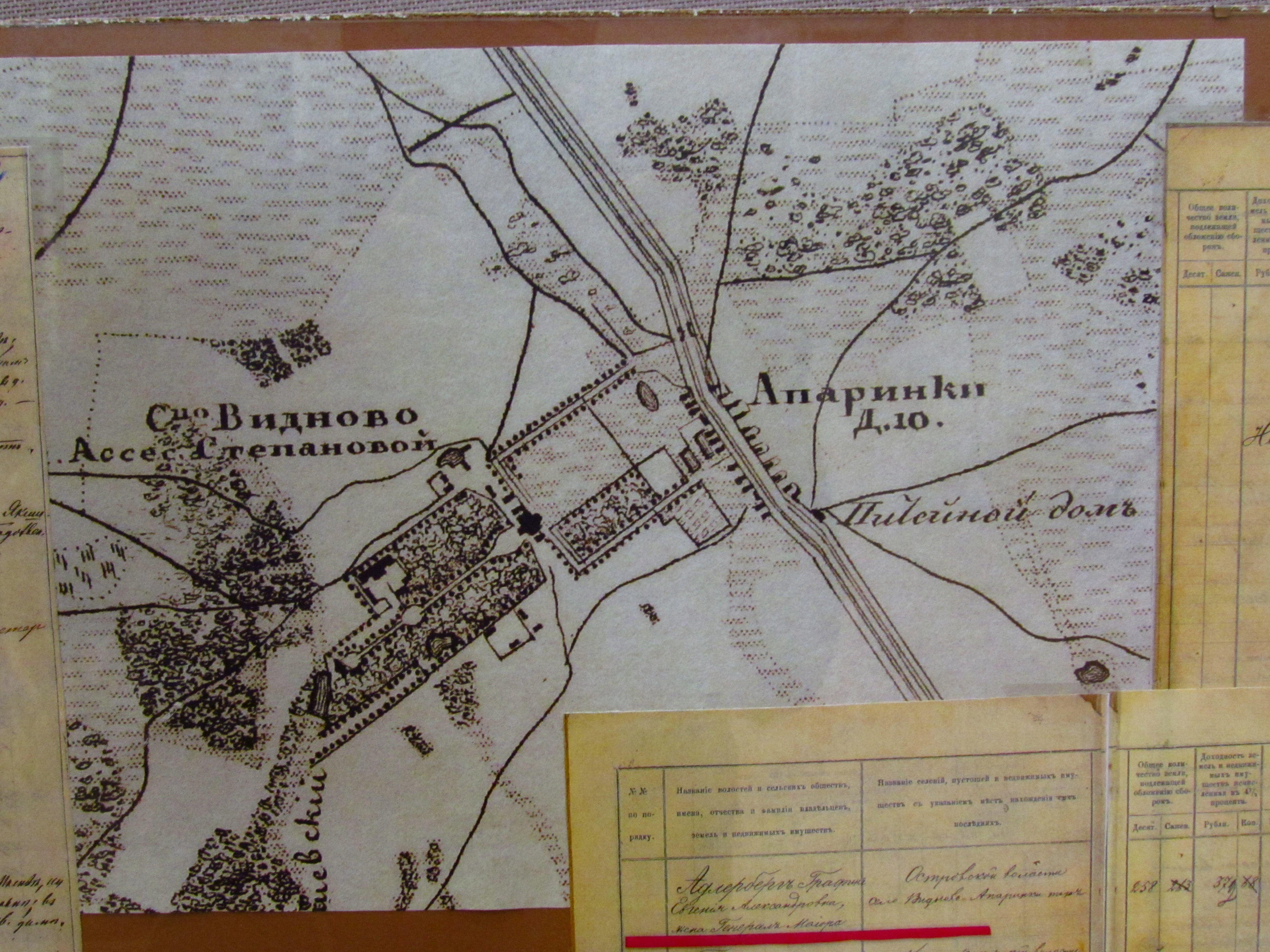 Exposition in Leninskiy District Historical and Cultural Center